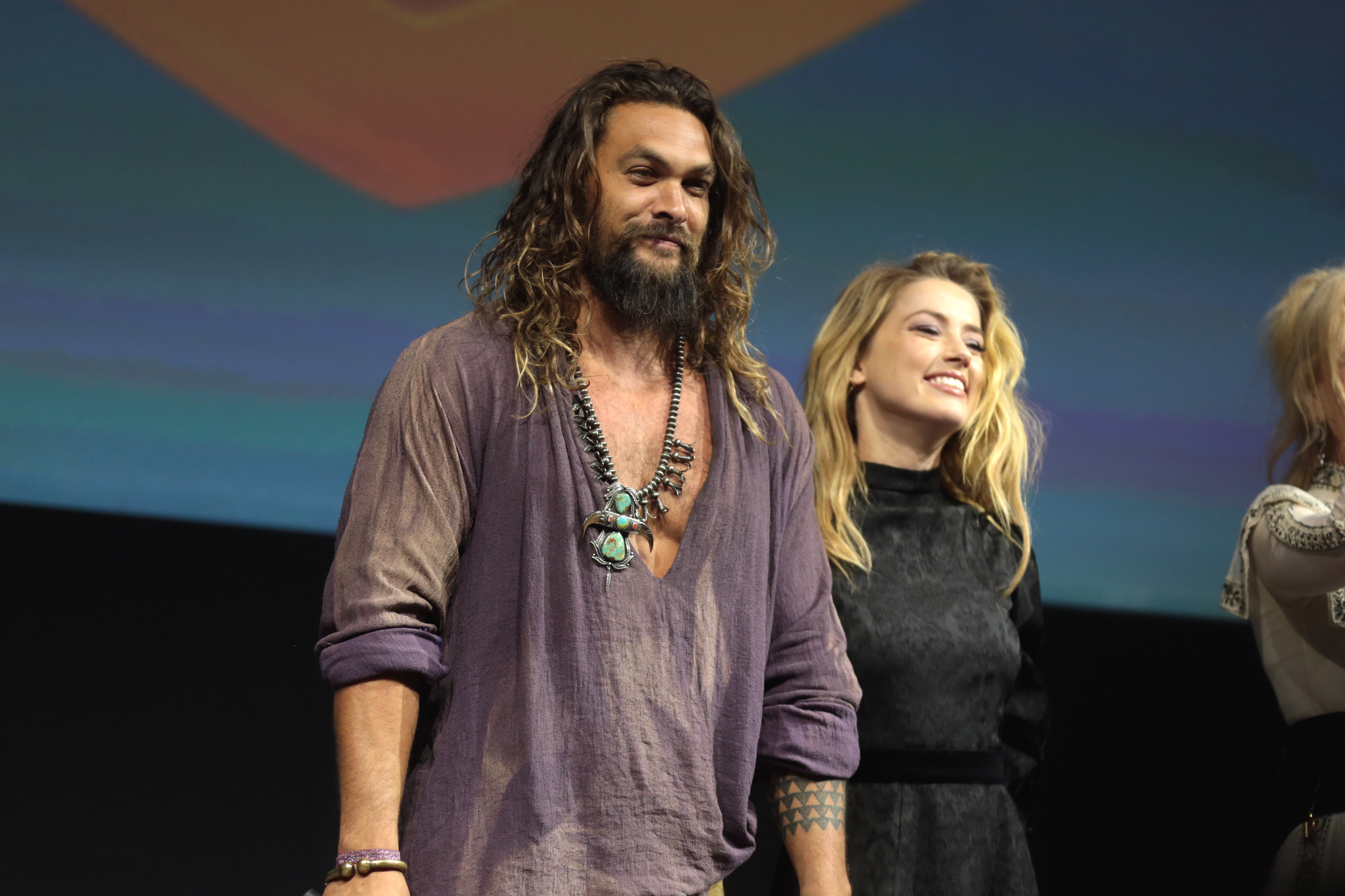 Jason Momoa and Amber Heard speaking at the 2018 San Diego Comic Con International, for "Aquaman", at the San Diego Convention Center in San Diego, California.